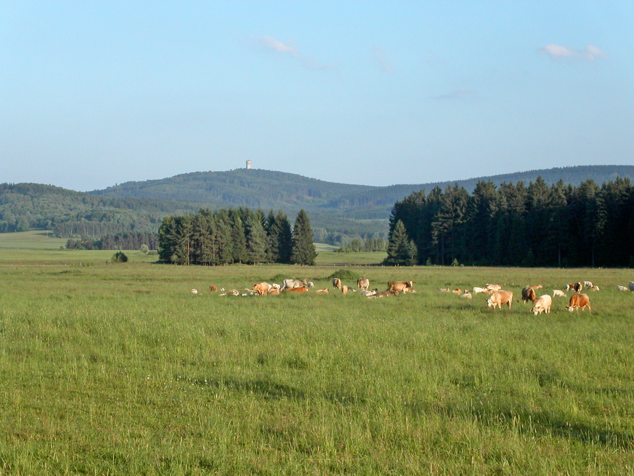 Typical landscape of the Český les Range, under Zvon mountain